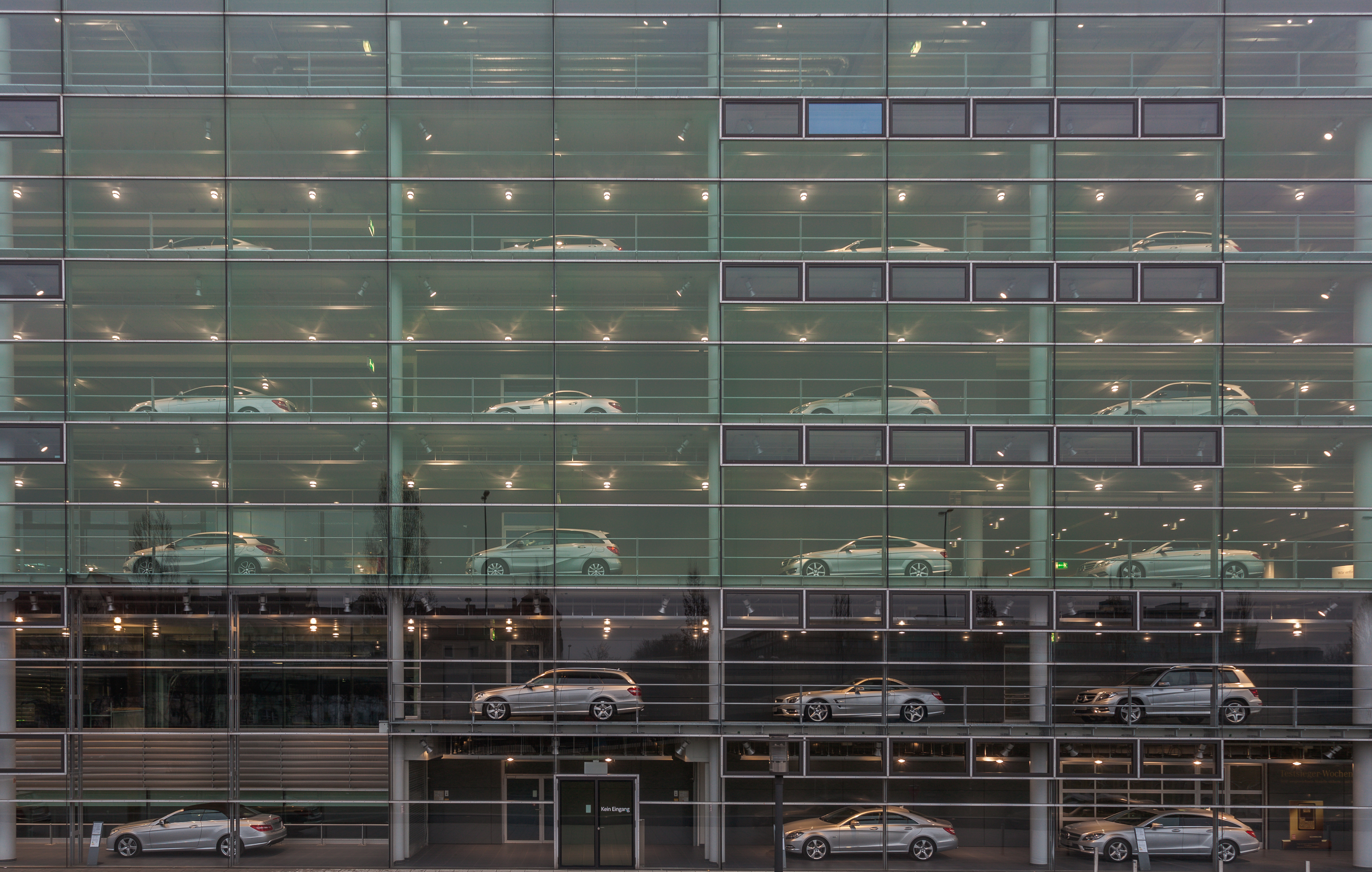 Mercedes-Benz dealership, Munich, Germany